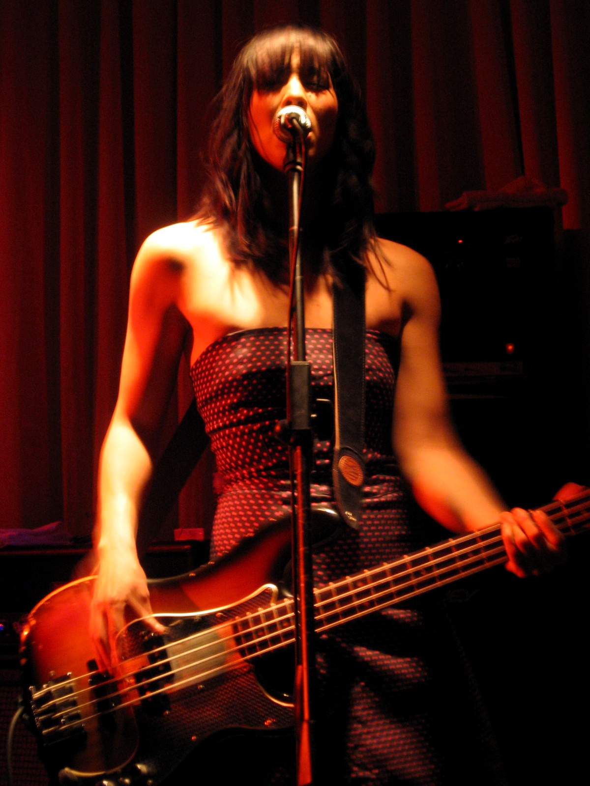 Bass guitar player Nicole Fiorentino of the band Veruca Salt.